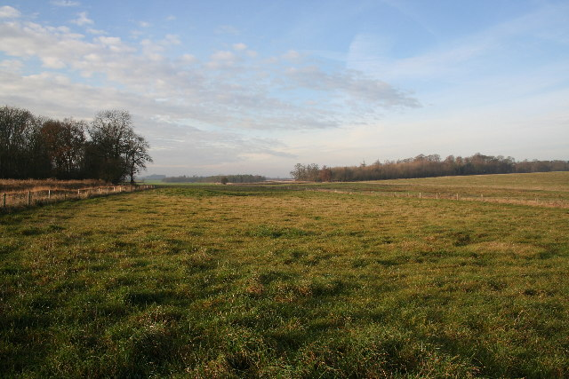 Medieval Fishponds. Looking west towards Top Barff wood on the right. Undulations in these fields mark the site of the medieval fishponds for Nocton Park Priory.